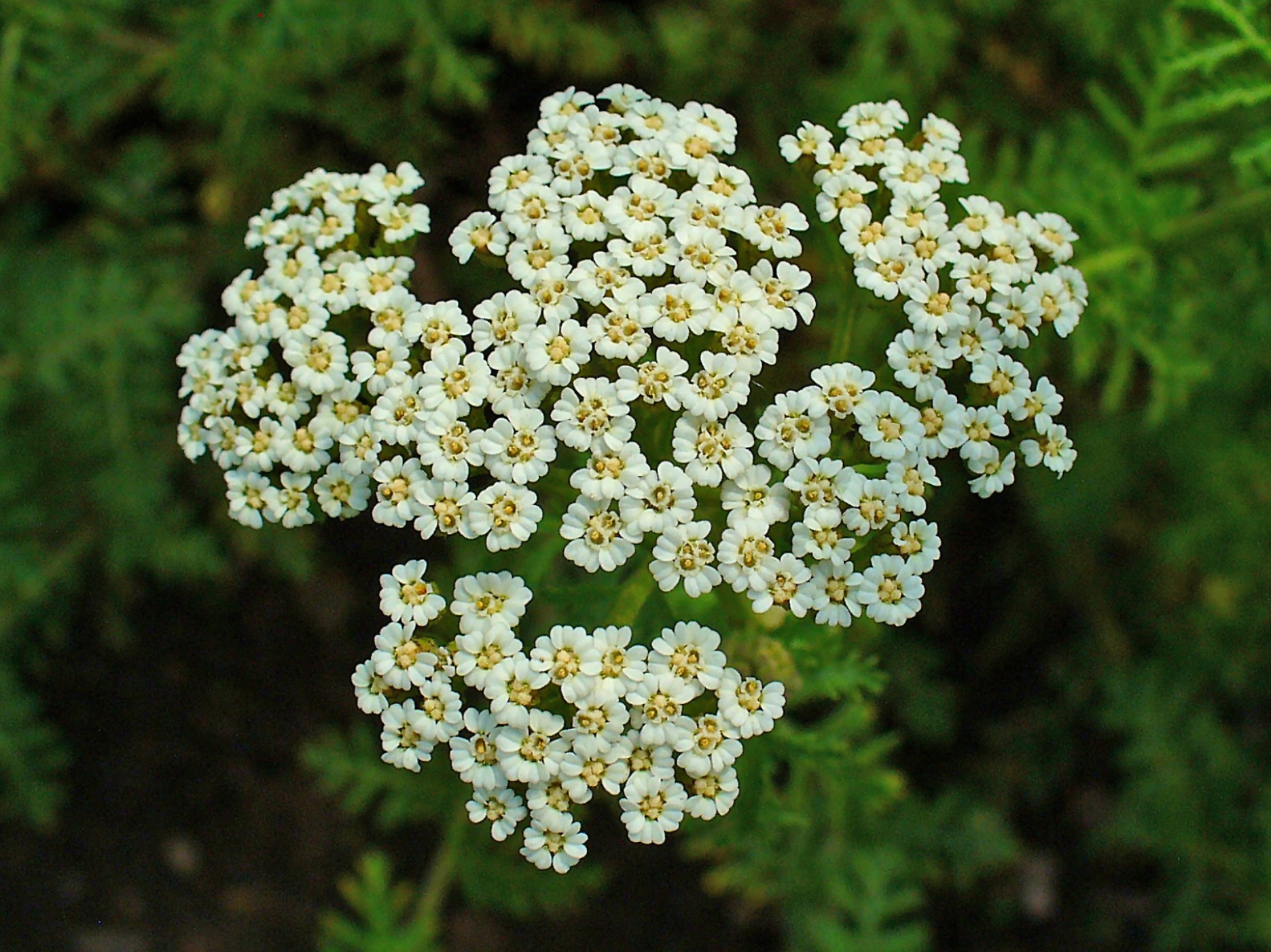 Achillea nobilis, Asteraceae, Noble Yarrow, inflorescence; Botanical Garden KIT, Karlsruhe, Germany.